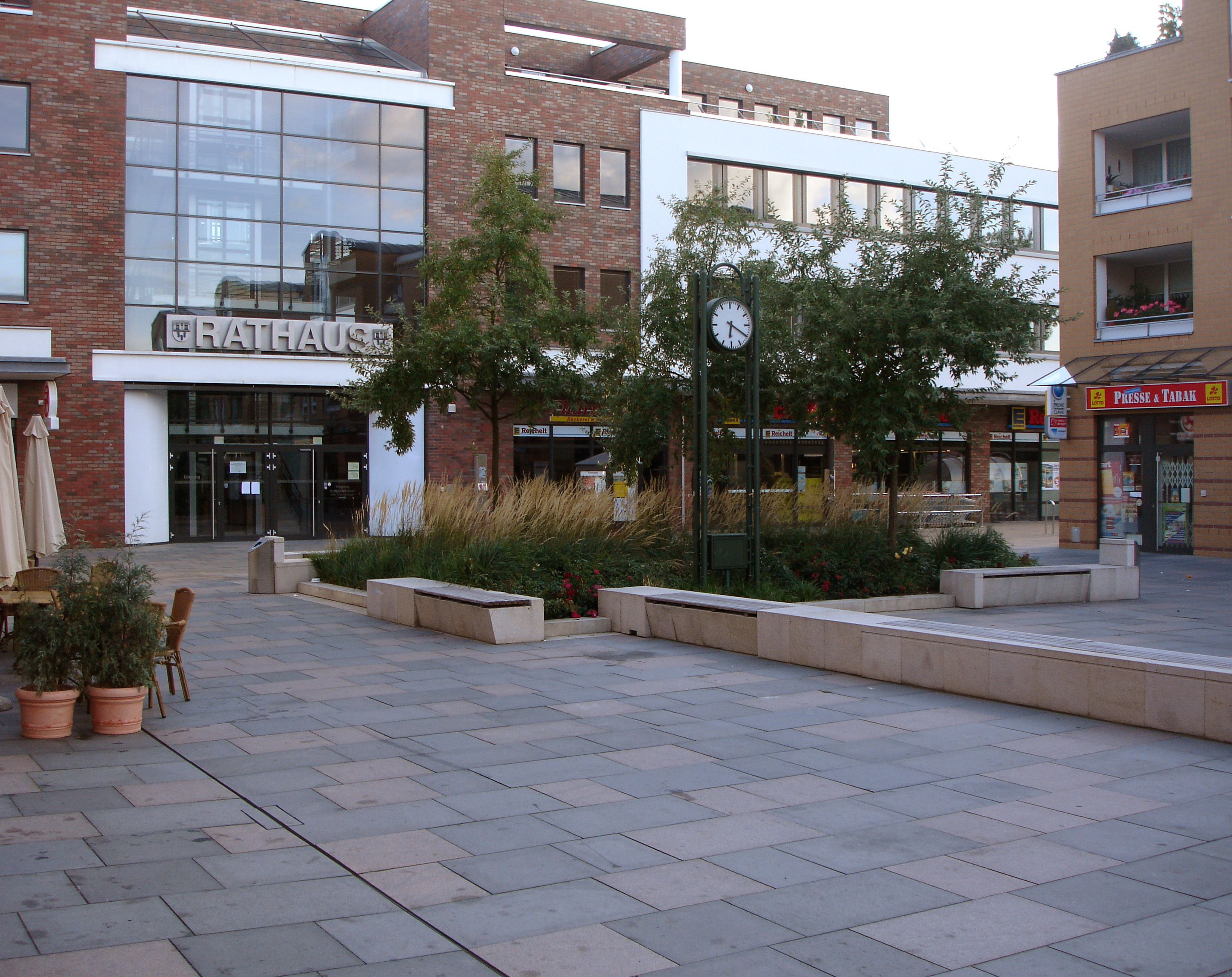 Kleinmachnow Rathausmarkt / town hall market 2007